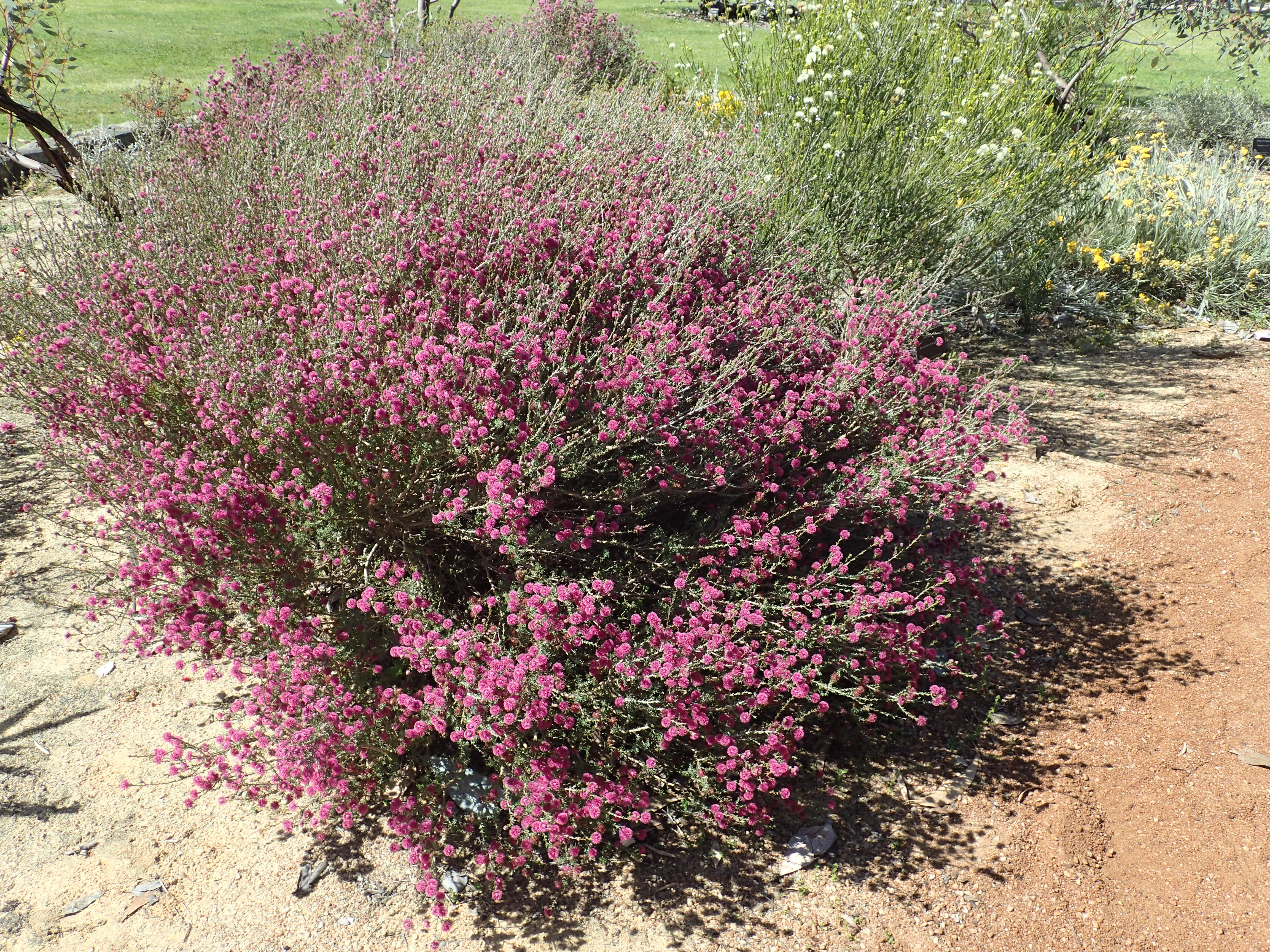 Phymatocarpus maxwellii growing in Kings Park, Perth in Western Australia